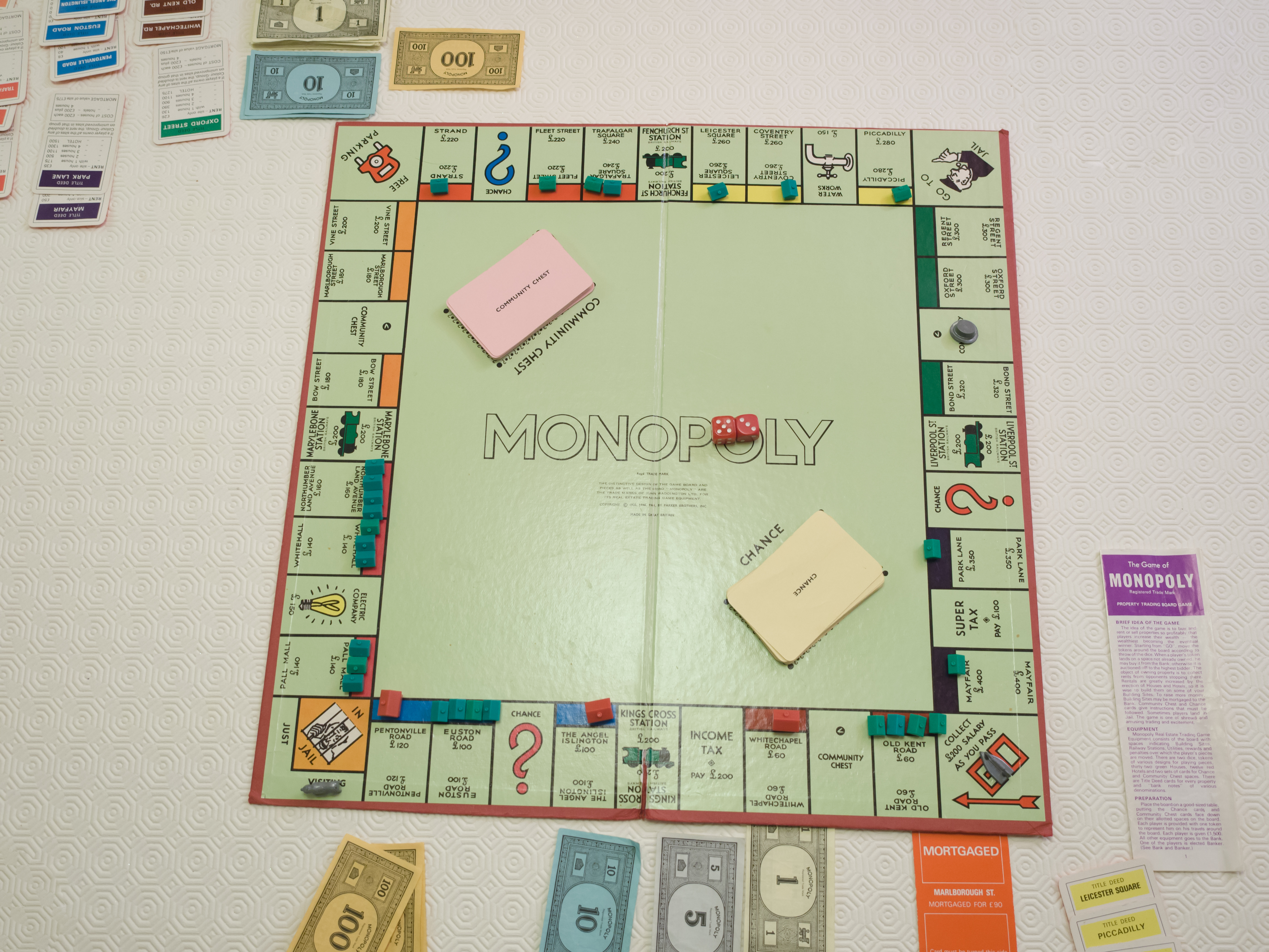 Board game Monopoly